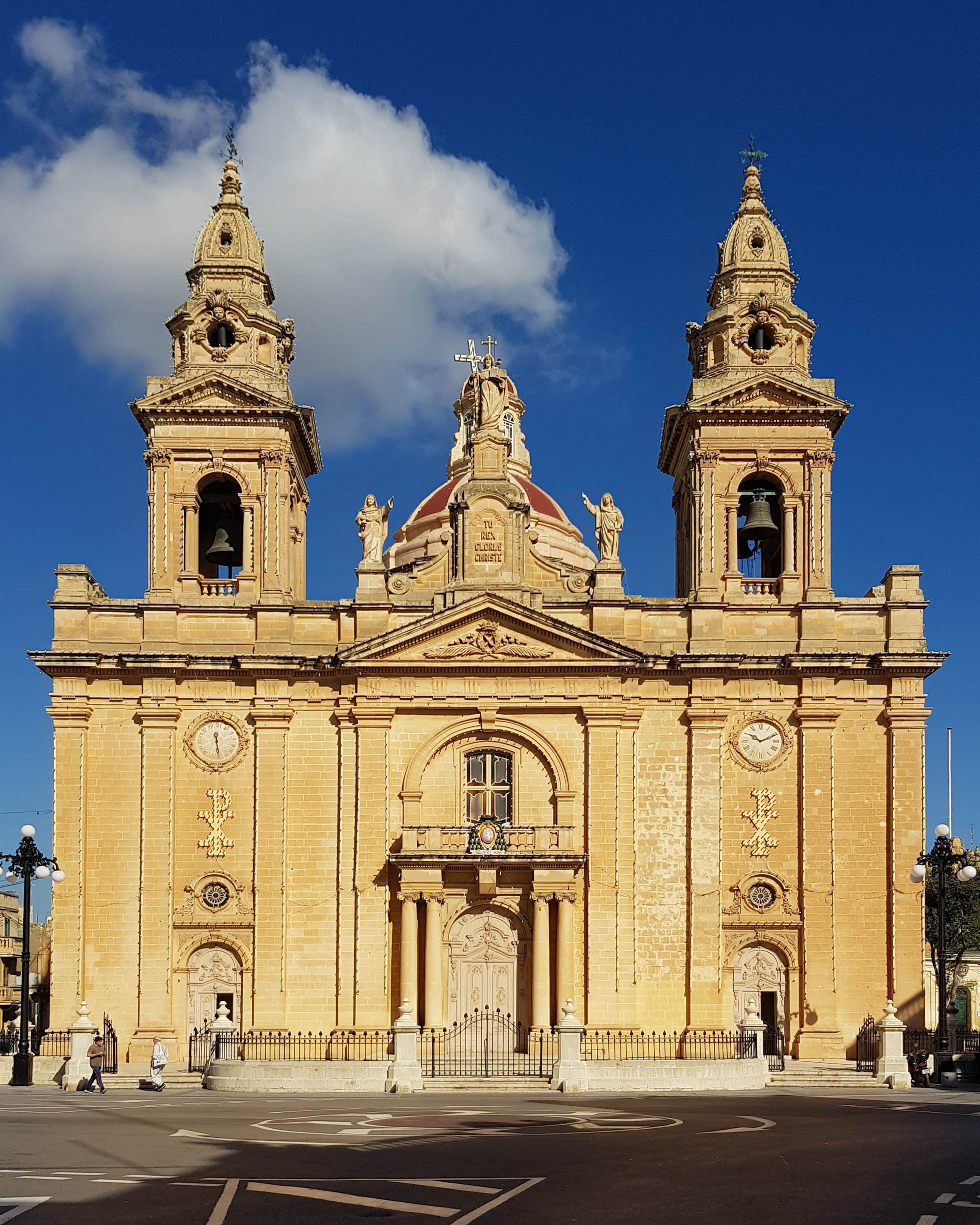 Parish Church of St. Andrew in Misraħ Sant'Andrija, Luqa, Malta This media is about Maltese cultural property with inventory number 1983.